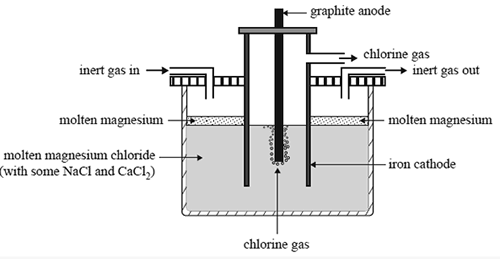 preparation of Magnesium by electrolysis